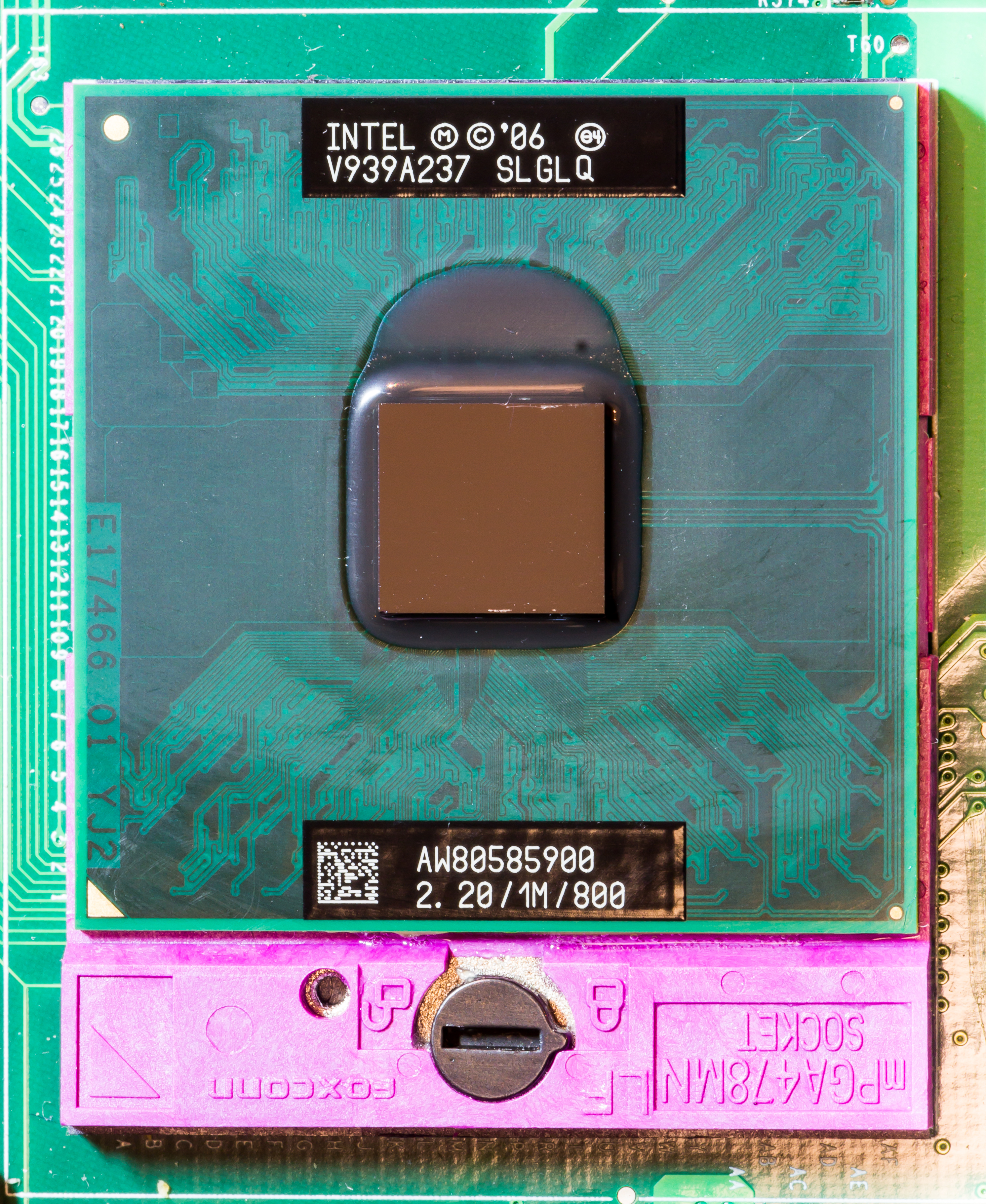 Intel Microprocessor Celeron Processor 900 AW80585900 SLGLQ in mPGA478MN socket. 1M Cache, 2.20 GHz, 800 MHz FSB. Code name: "Penryn-3M"